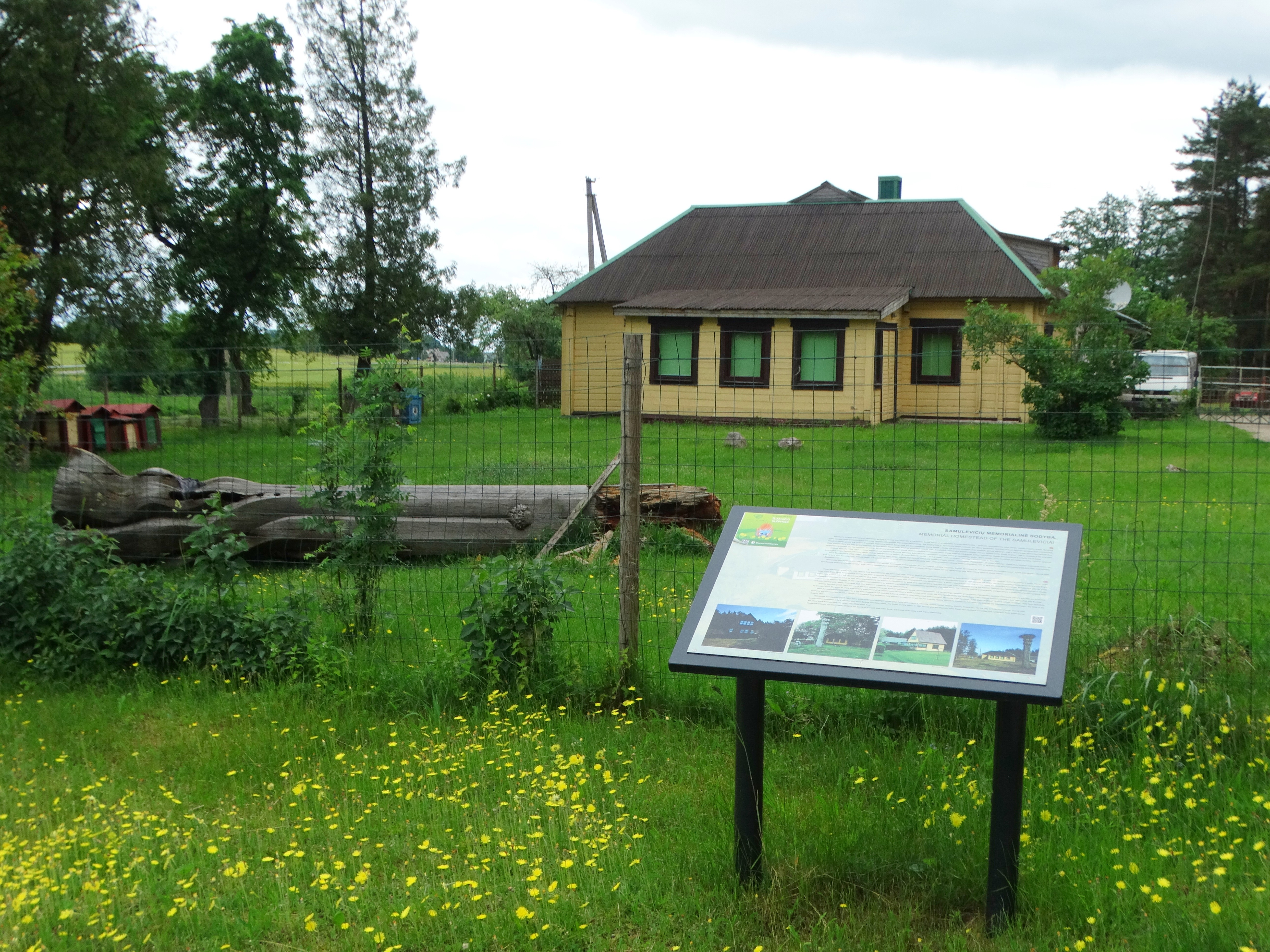 Samulevičiai family homestead, Prauliai, Jonava district, Lithuania